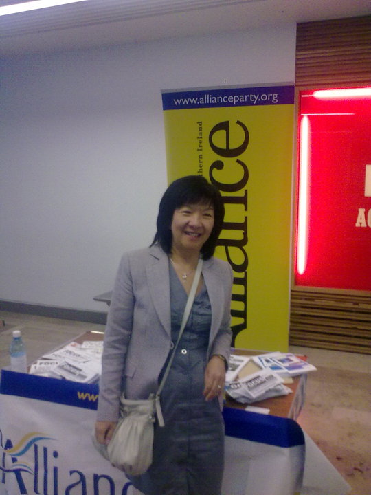 Anna Lo MLA at the Alliance Youth stand at a Freshers' event at the University of Ulster, Belfast